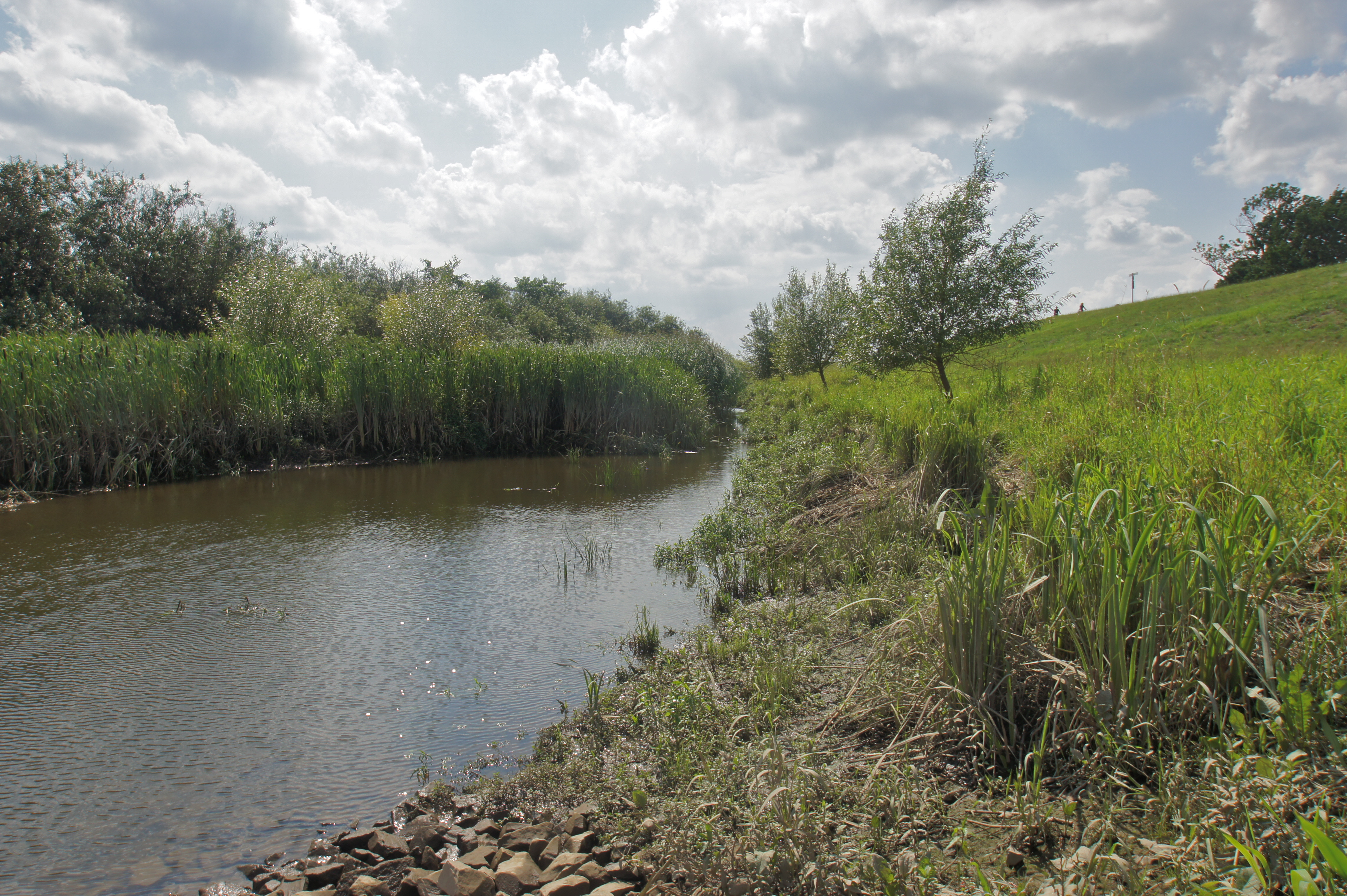 Hamburg (Altengamme), Germany: The “priel” Schlinz